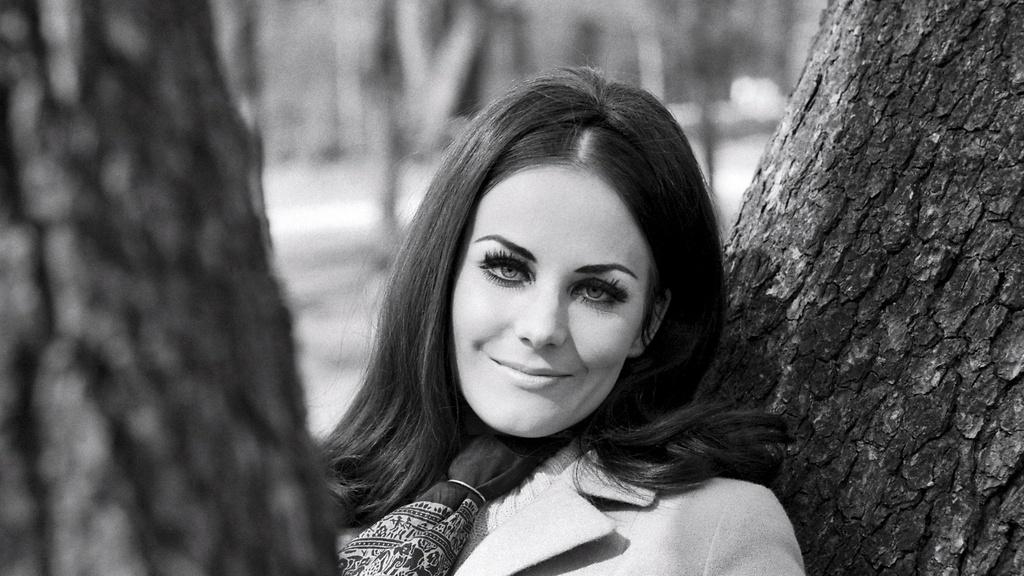 Photograph of the Finnish vocalist Seija Simola (1944–2017).